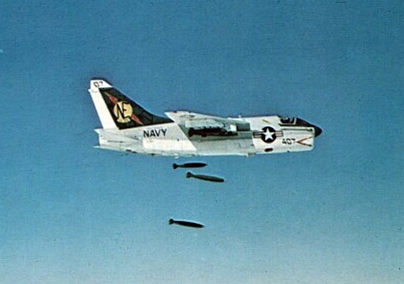 A U.S. Navy LTV A-7E-7-CV Corsair II (BuNo 157507) from Attack Squadron VA-25 Fist of the Fleet dropping Mk 83 bombs over Vietnam. VA-25 was assigned to Attack Carrier Air Wing 2 (CVW-2) aboard the aircraft carrier USS Ranger (CVA-61) for a deployment to Vietnam from 27 October 1970 to 17 June 1971.